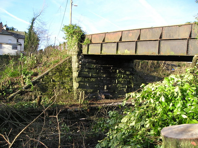 Llandysul Station Last days of Llandysul station, the end of the line when it opened in 1865. It was called the Carmarthen and Cardigan railway but never reached Cardigan, though it was extended under this bridge as far as Newcastle Emlyn in 1895. It saw its last train in 1973 and in 2008 is about to be overwhelmed by the new Llandysul bypass. The stationmaster's house overlooked the track.